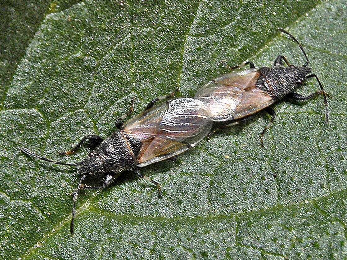 Oxycarenus hyalinipennis, mating. Genova, Italy